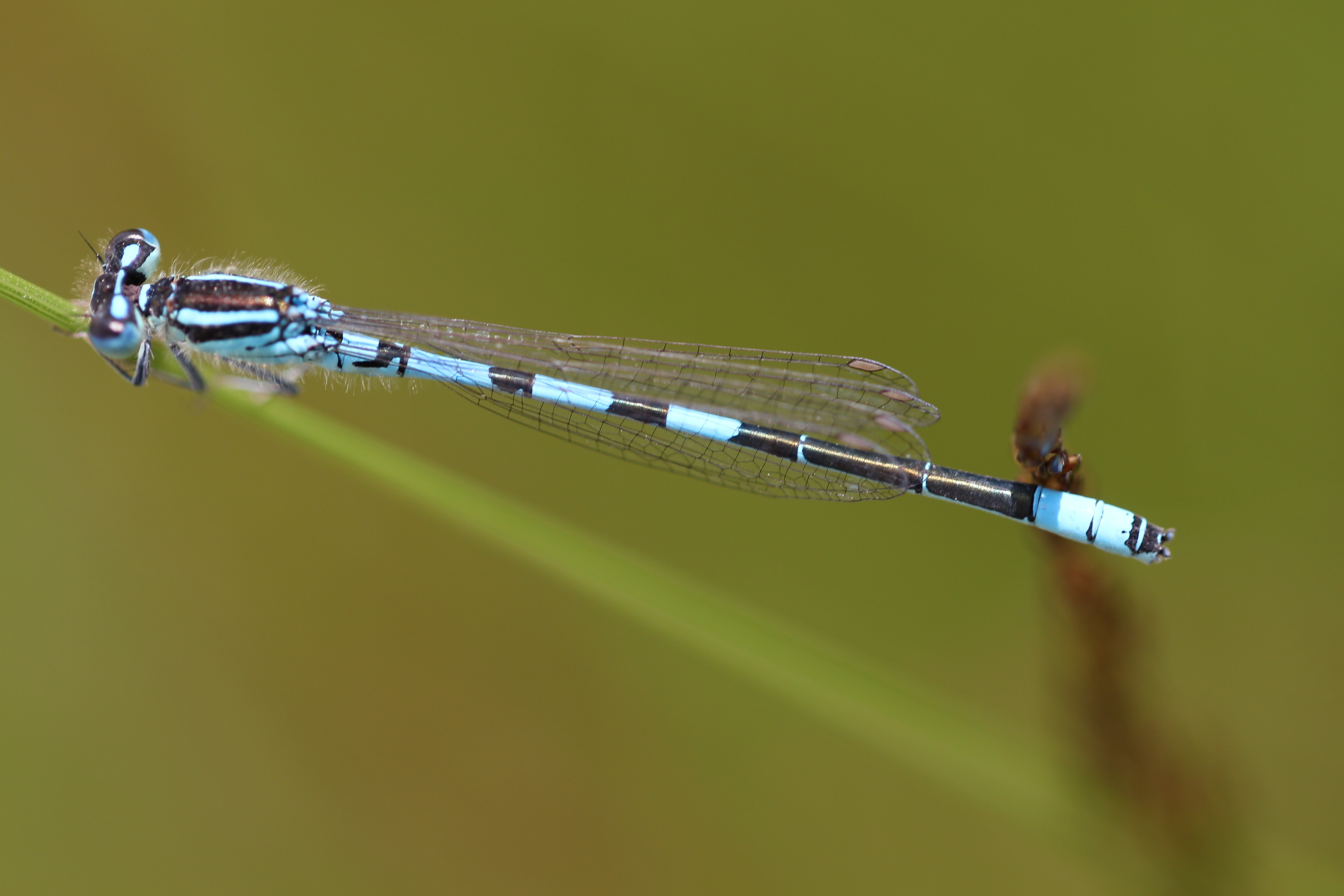 I've seen a few of these as a rarity in Kent, England but they seem very common in France. Field marks are the "cats head" on S2, 2.5 black segments and the long, pale pterostigma.